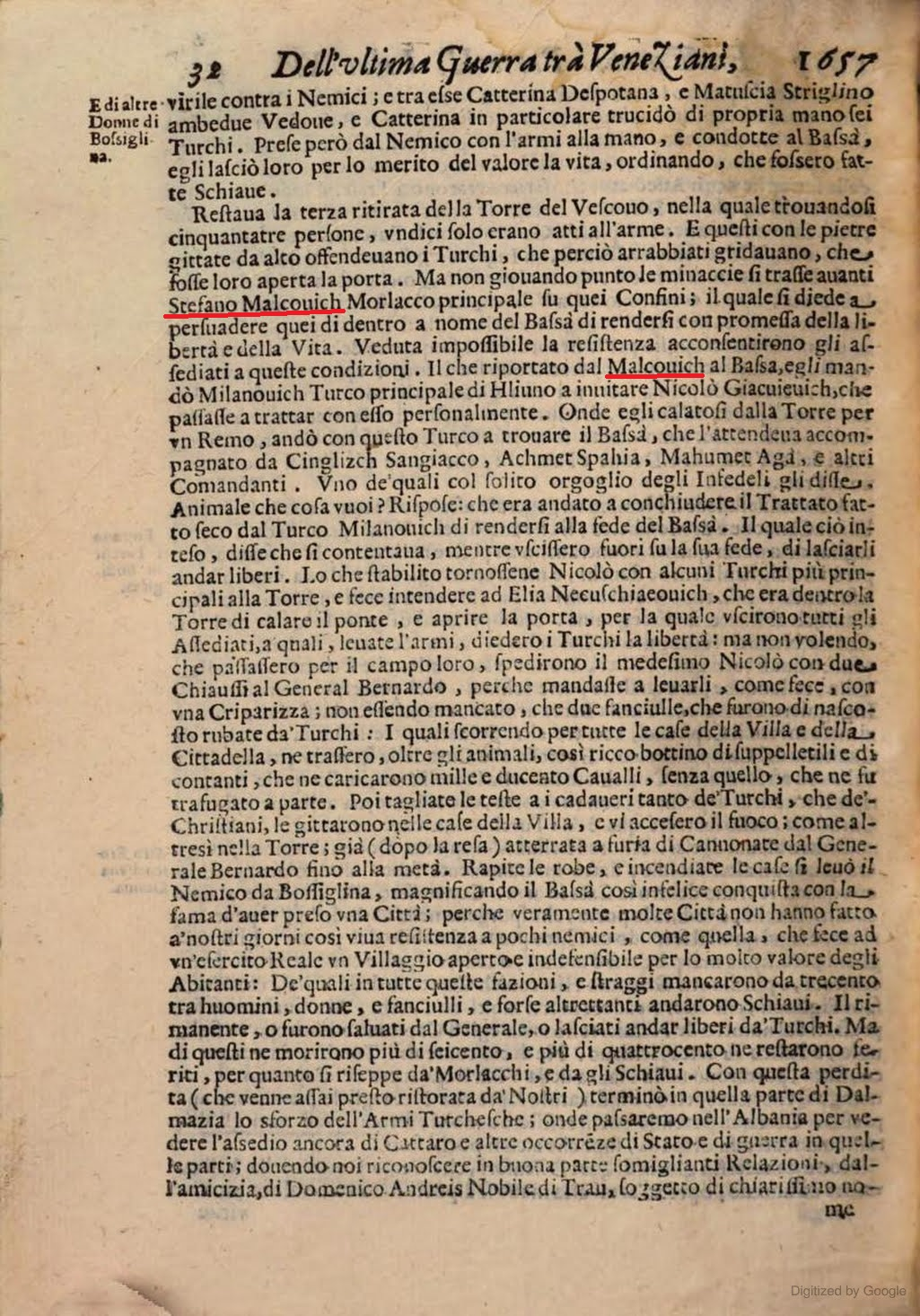 Historia dell’ ultima guerra tra Veneziani e Turchi""